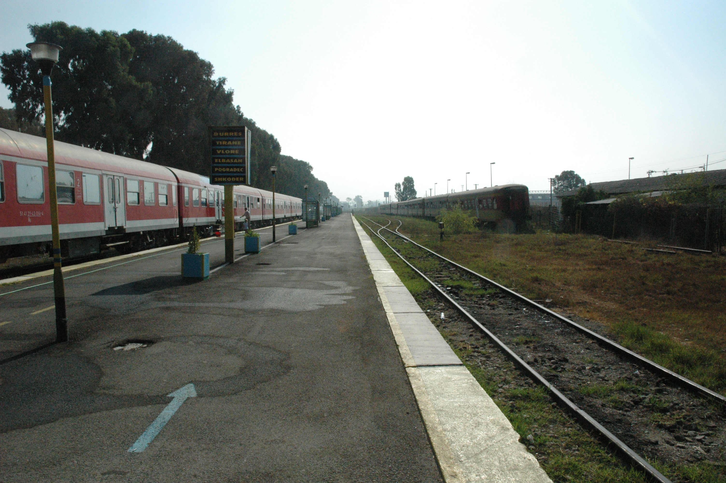 Train station of Durrës, Albania